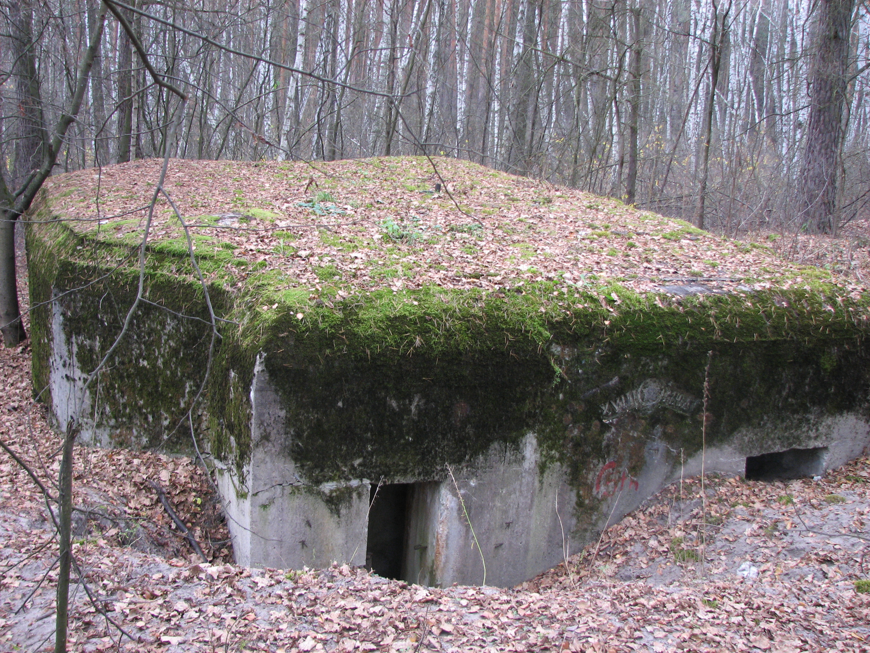 Pillbox 502 (Kyiv Fortified Region)